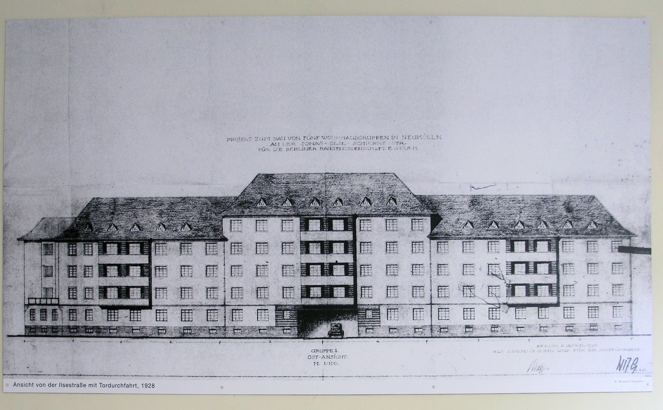 Memorial plaque, Ilsenhof Ansicht, Ilsenhof 1, Berlin-Neukölln, Germany Koordinate:52°28′15″N 13°26′6″E / 52.47083°N 13.435°E